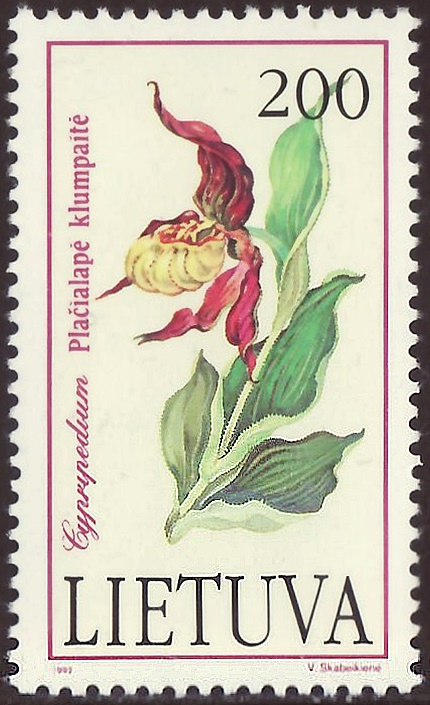 Stamp of Lithuania; 1992; commemorative issue "The Red Book of Lithuania (II) - Flora"; stamp picture of Cypripedium Stamp: Michel: No. 499 (LT); Yvert & Tellier: No. 430 (LT); AFA: No. 496 (LT) Color: multicolored Nominal value: 200 (Kopekų) Postage validity: from 11 July 1992 until 30 September 1992